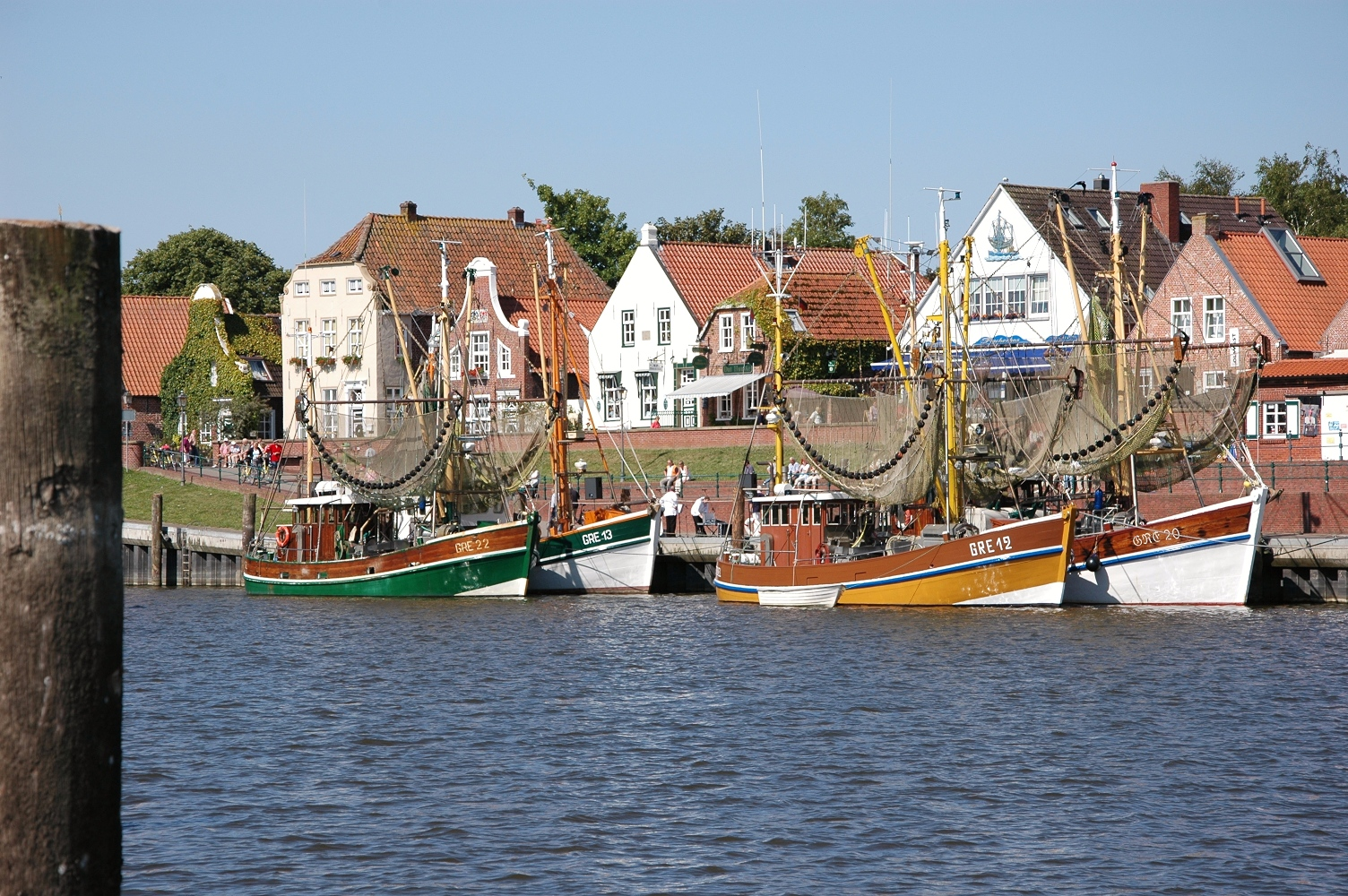 Fishing port of Greetsiel (2009)